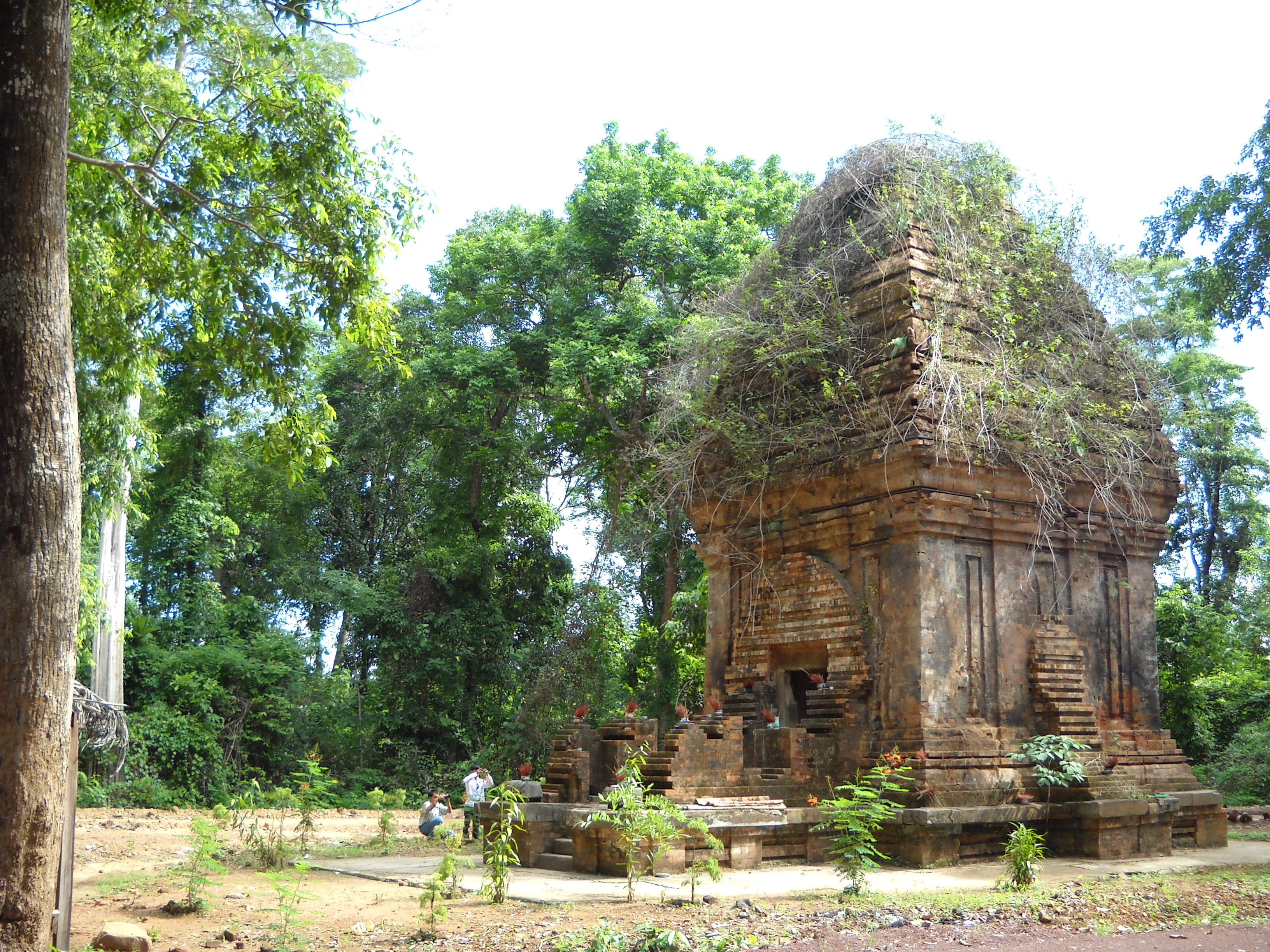 Cham tower Yang Prong in Ea Súp, Đắk Lắk, Viet Nam.